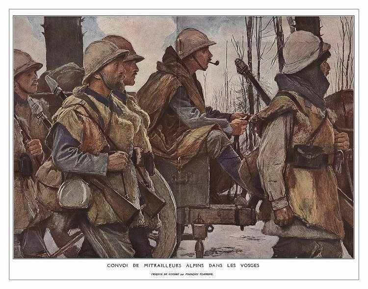 A Machine Gun Company of Chasseurs Alpins in the Barren Winter Landscape of the Vosges, painting by François Flameng, source: [1]. Painted during World War I 1914-198.